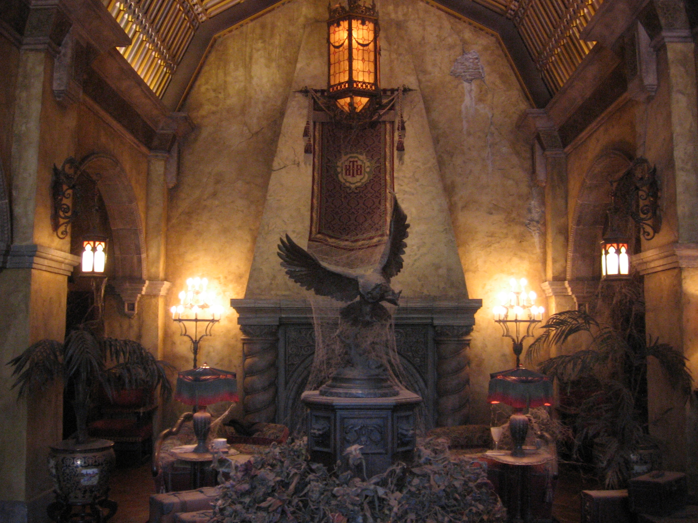 A photograph of the hotel lobby in The Twilight Zone Tower of Terror at Disney's Hollywood Studios, Orlando